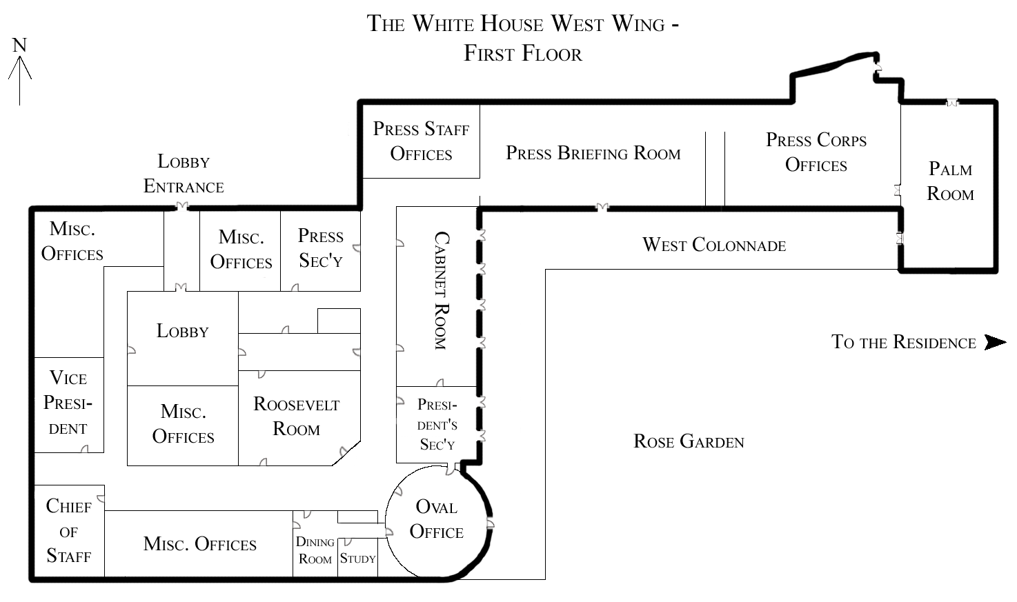 A floorplan of the first floor of the West Wing of the White House. Note that, depending on the administration, some positions (V.P., Chief of Staff, etc.) may be located in different offices than are shown here. Image is not to scale.